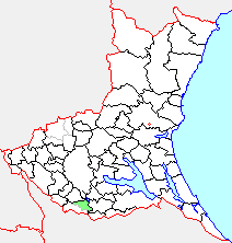 Map of Fujishiro, Ibaraki, Japan.